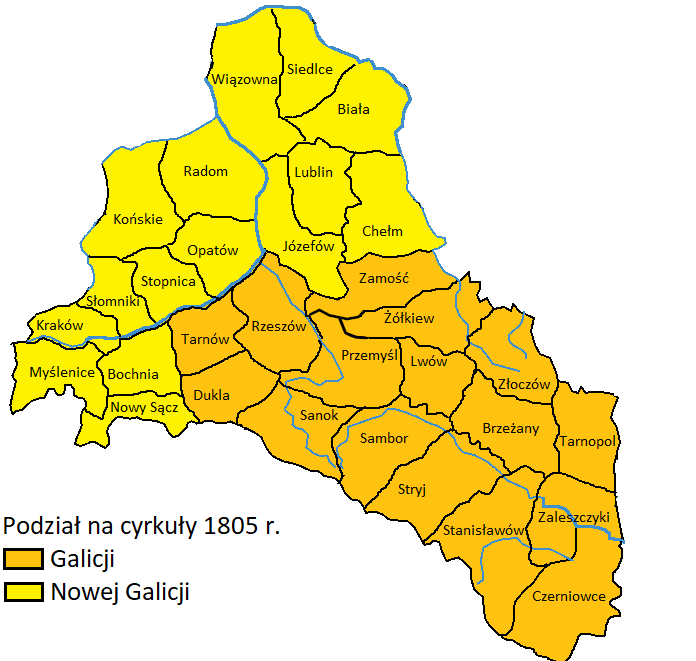 Administrative division of austrian provinces of Galicia and New Galicia in 1805